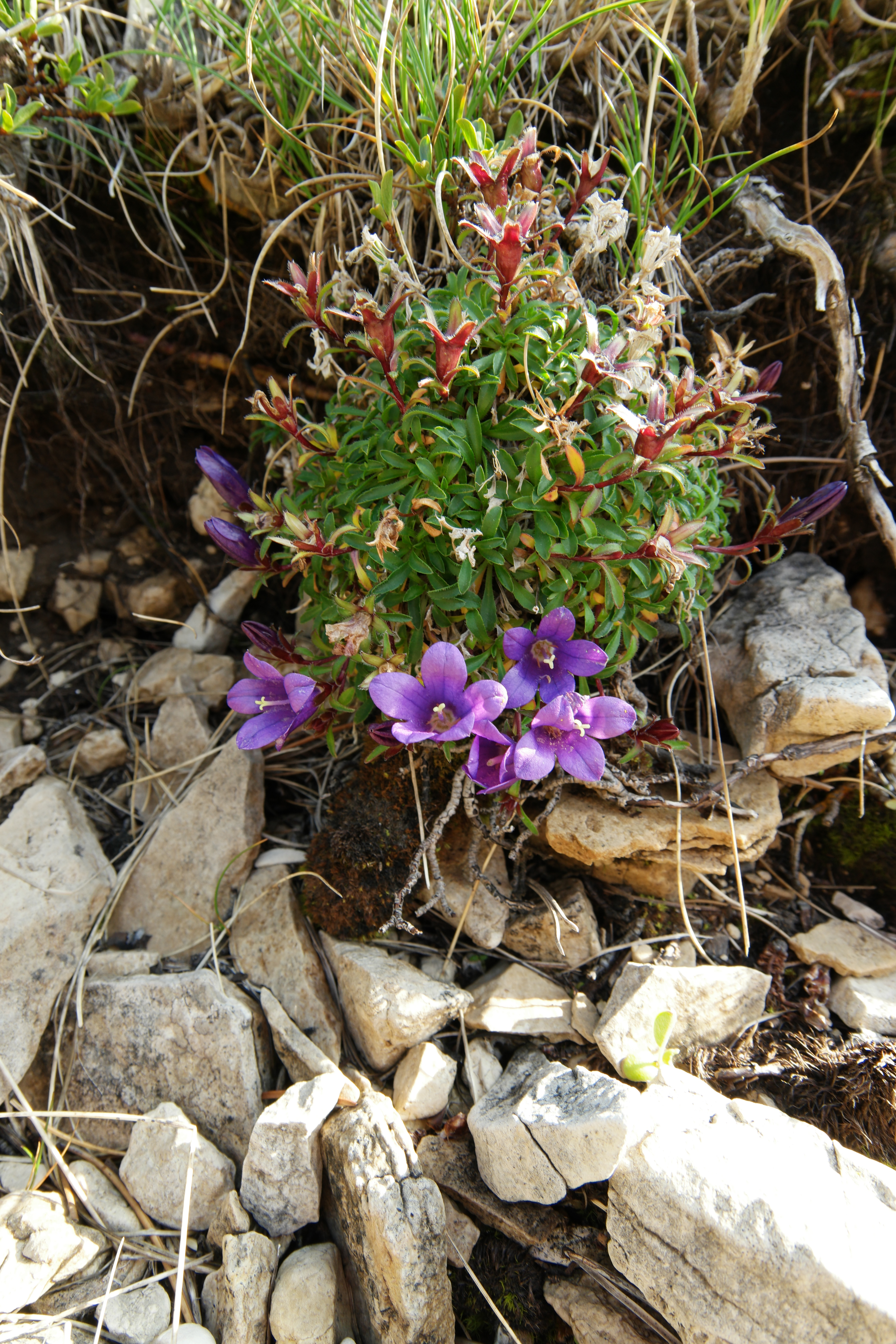 cold tolerant Edraianthus serpyllifolius, Jastrebica, Mt Orjen Montenegro